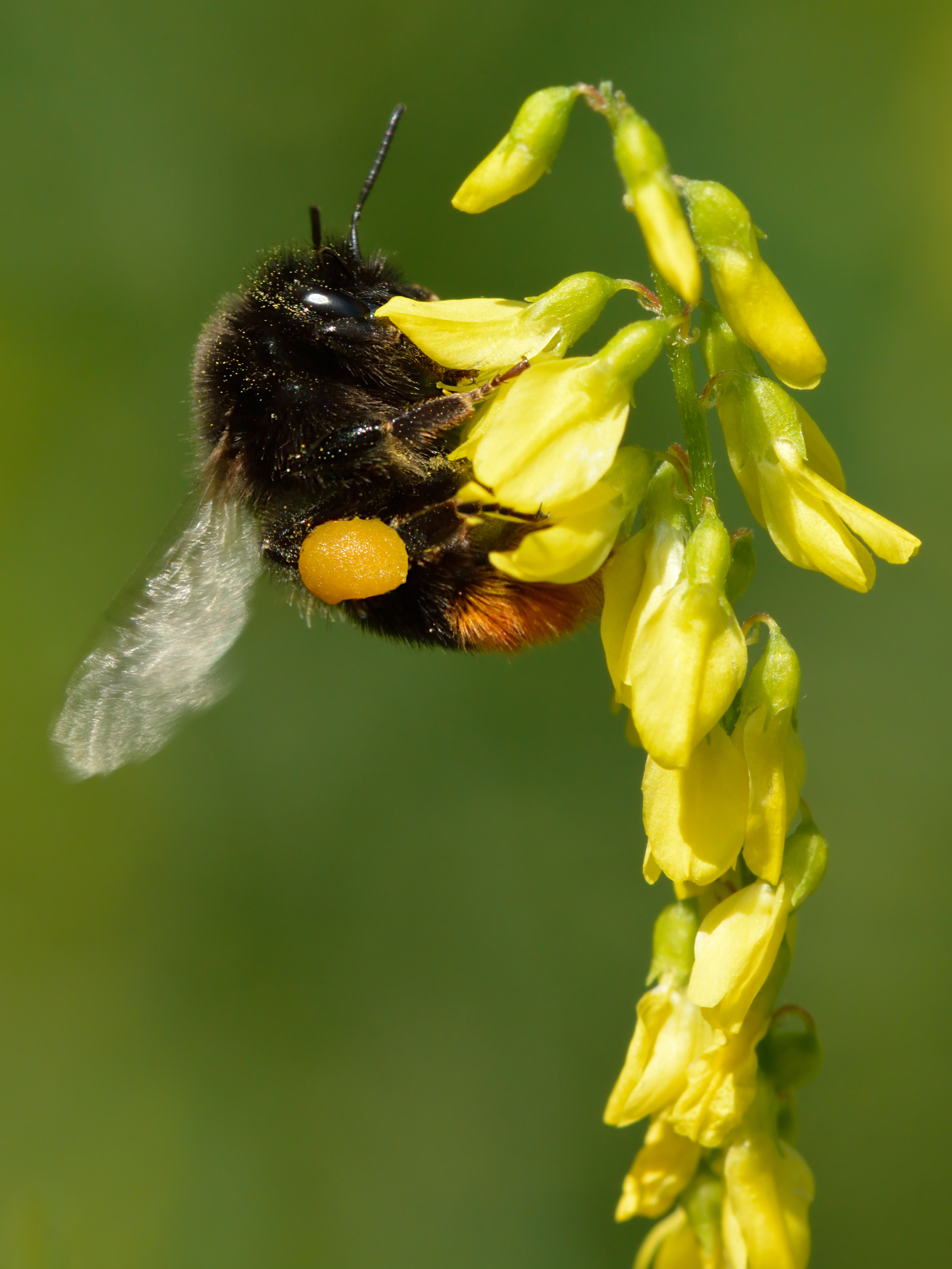 Red-tailed bumblebee (Bombus lapidarius) on the yellow sweet clover (Melilotus officinalis). Tallinn, Estonia.